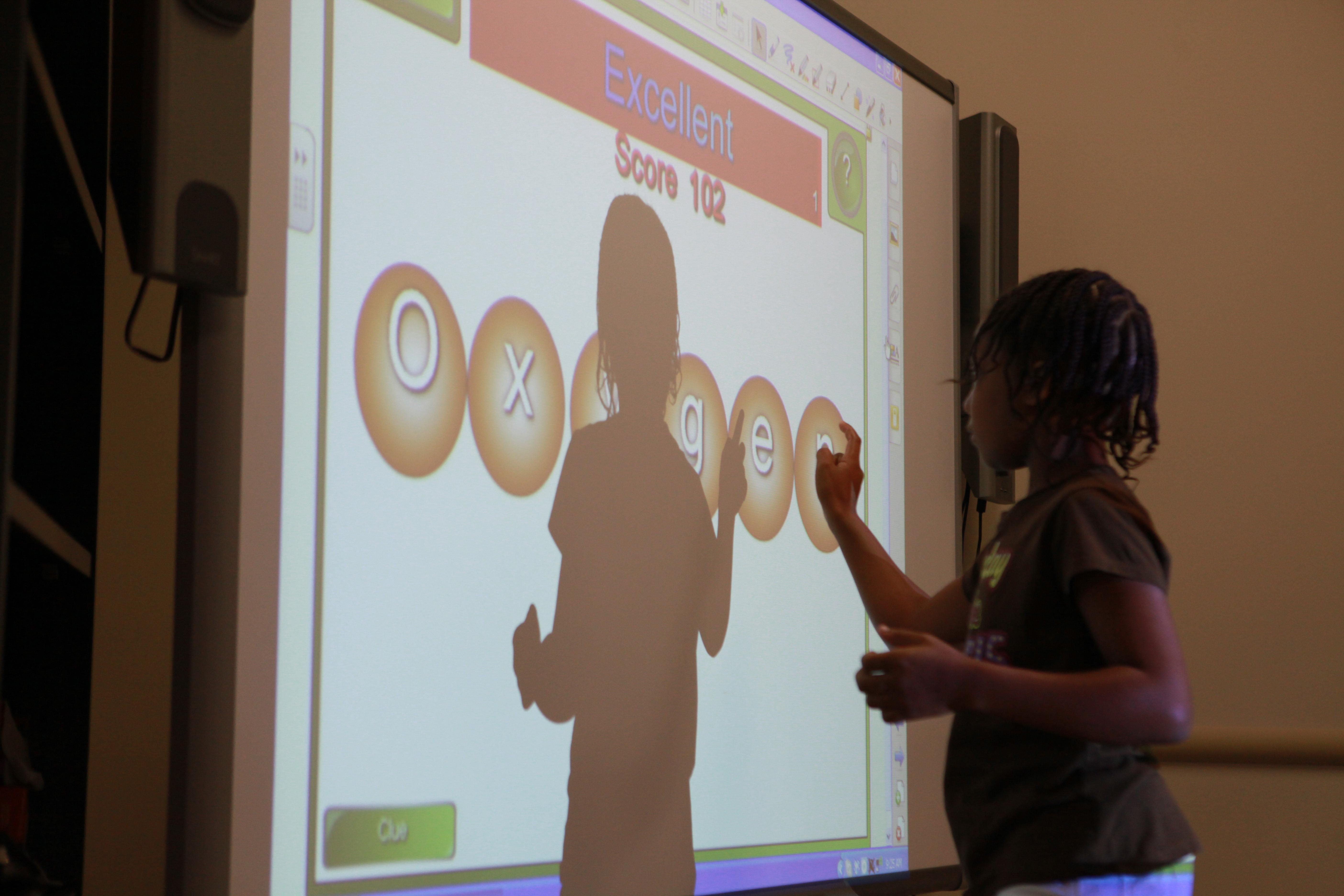 Caitlin Ulmert, a fourth-grade student, use one of the multi media function of the Smart board during a class for teacher to learn how to use their Smart Boards August 8 at the Air Station Structural Fire Department. During the day long course educators from the three Department of Defense schools on Laurel Bay were present to learn how to integrate the technology into their curriculum.